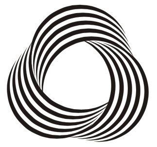 Woolmark, symbol of type of material for clothing